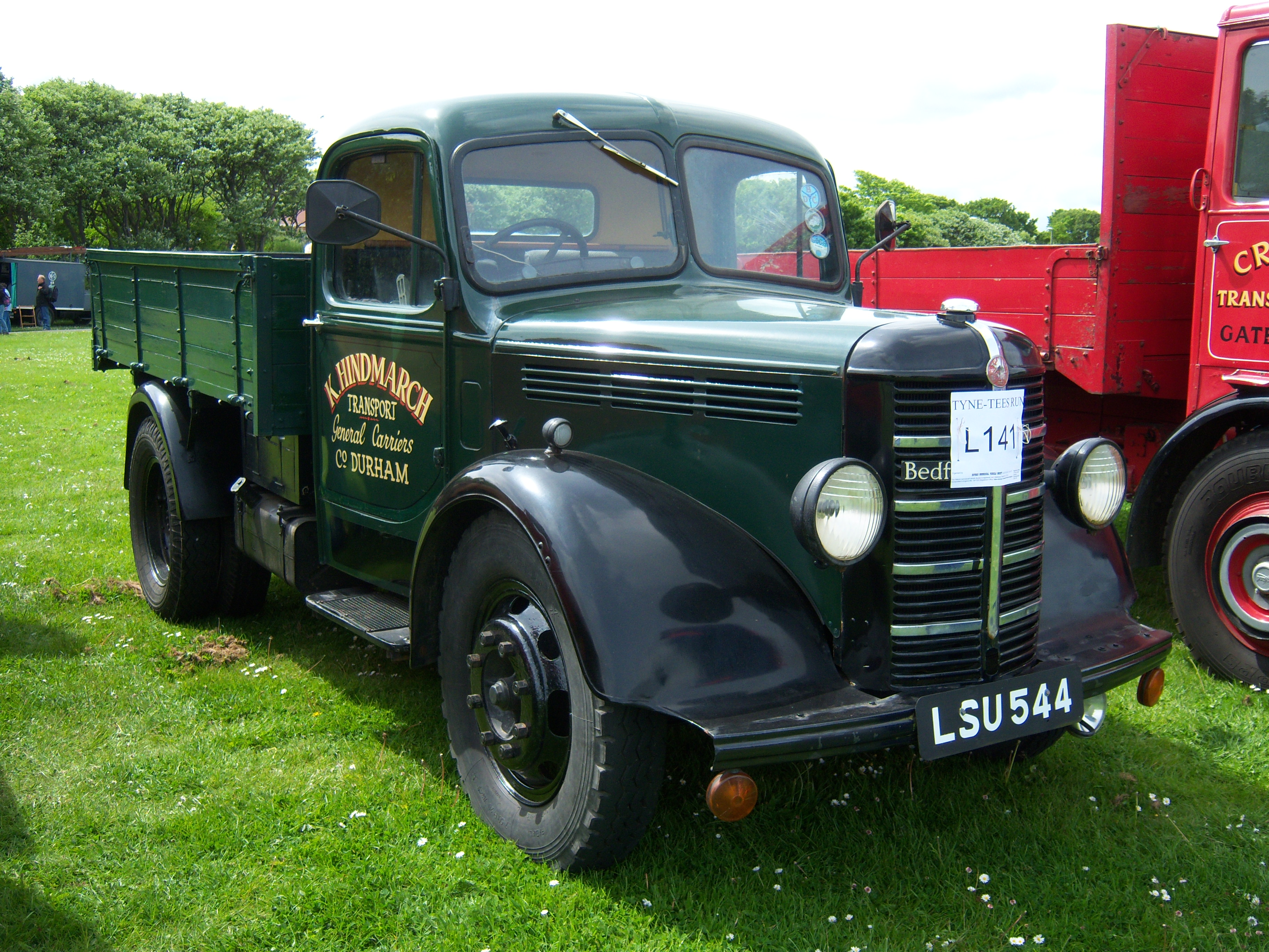 A 1948 Bedford MSD (reg. LSU 544) dropside lorry, pictured at the end of the 2012 HCVS Tyne-Tees Run. It was imported back to the UK in 1996, having spent 40 year in New Zealand. It's in the livery of K. Hindmarch Transport, general carriers. It has a Bedford 220 diesel engine, replacing the original 6 cylinder petrol unit.